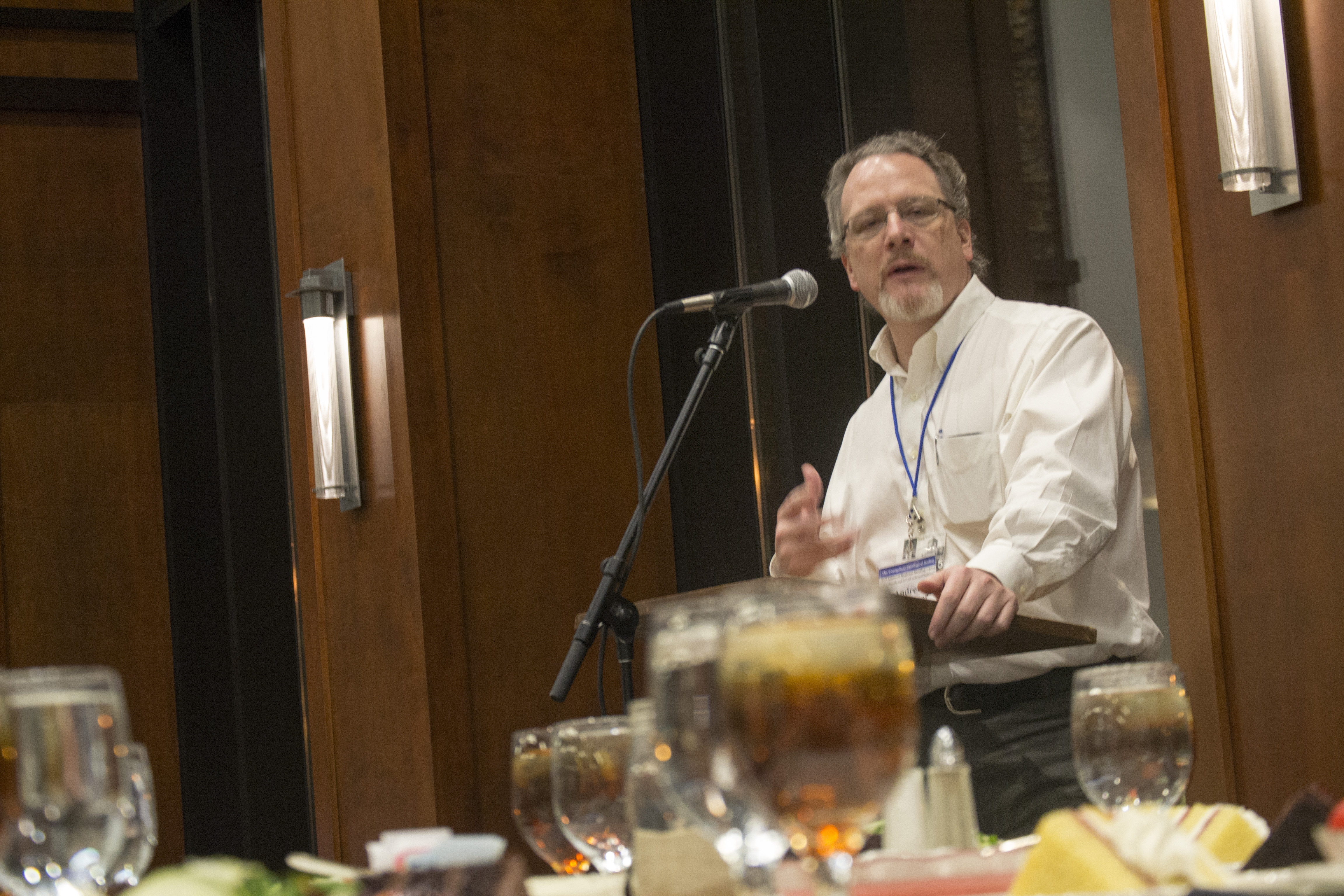 Andrew J. Schmutzer speaks at the banquet of the 2015 Midwest meeting of the Evangelical Theological Society